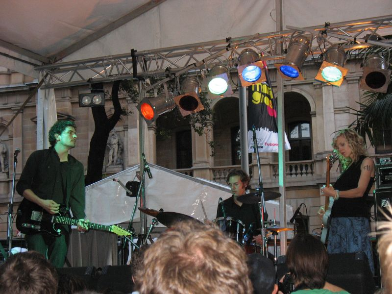 Art of Fighting is an indie rock band from Melbourne, Australia. Here at St Jeromes Laneway Festival, Sydney